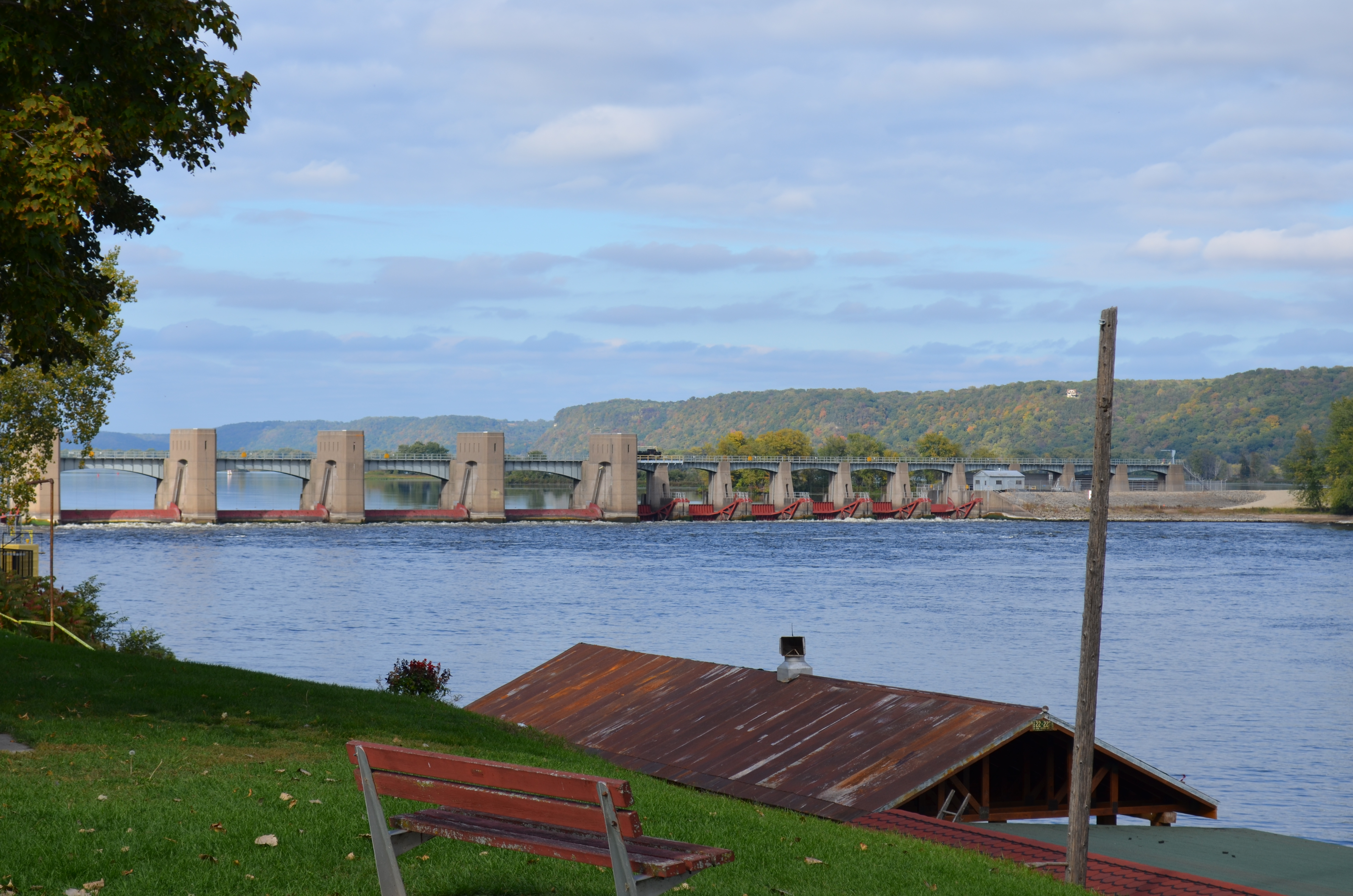 Photo by Mara Koenig/USWFS.